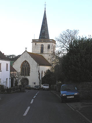 Stogursey church from main street, Stogursey, Somerset.